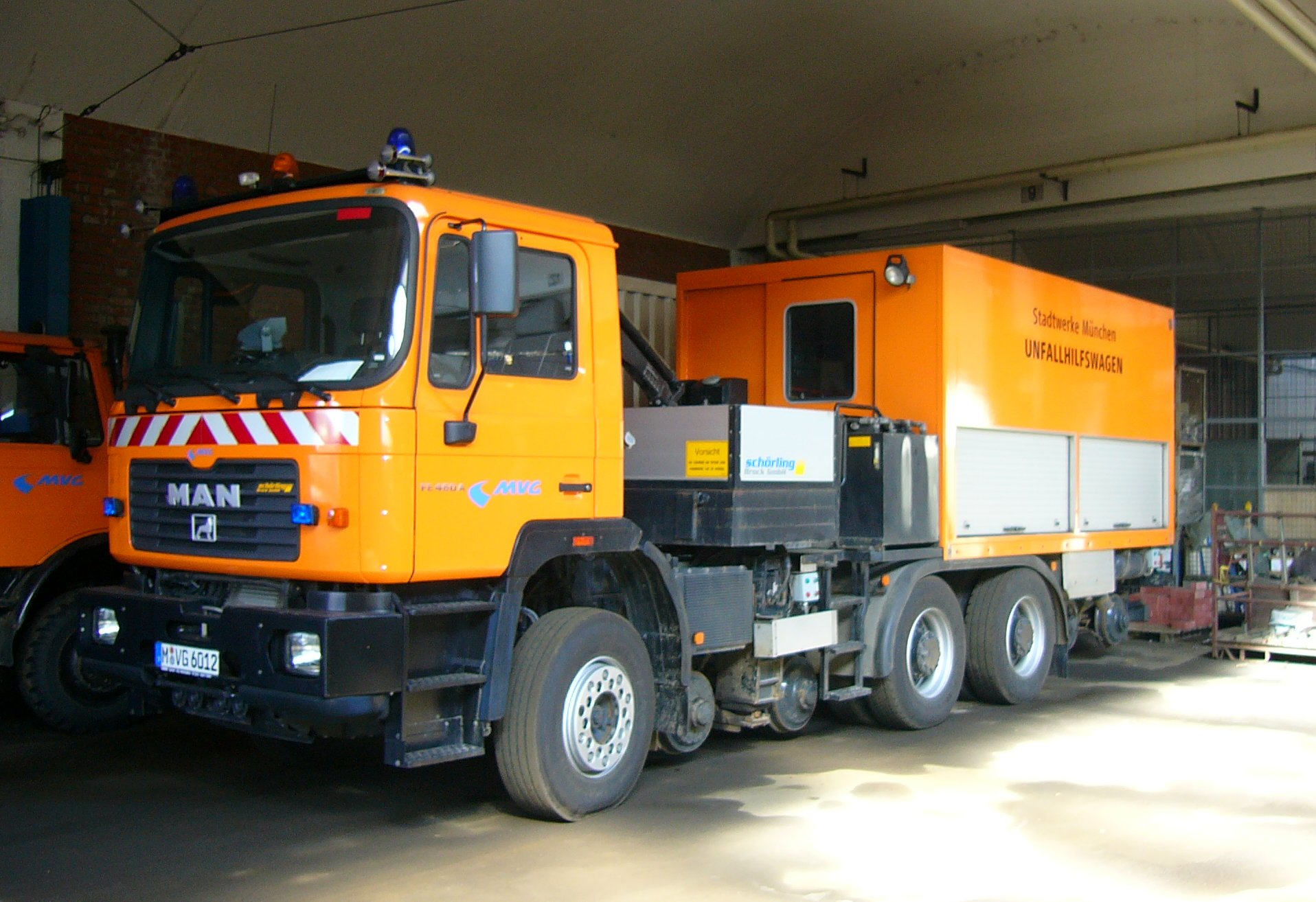 A M.A.N. FE 460 heavy technical assistance shunting vehicle 460 hp diesel truck with crane and drawbar for pulling, enrailing and shunting trams, customized by Schörling Häuslingen. Front view. Prize: 1.7 m €